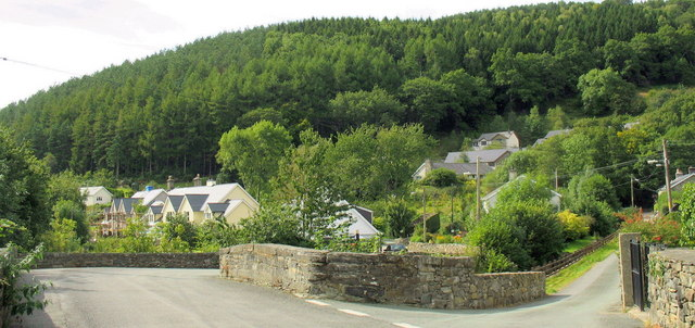 Pont Wnion and the centre of Llanelltyd village